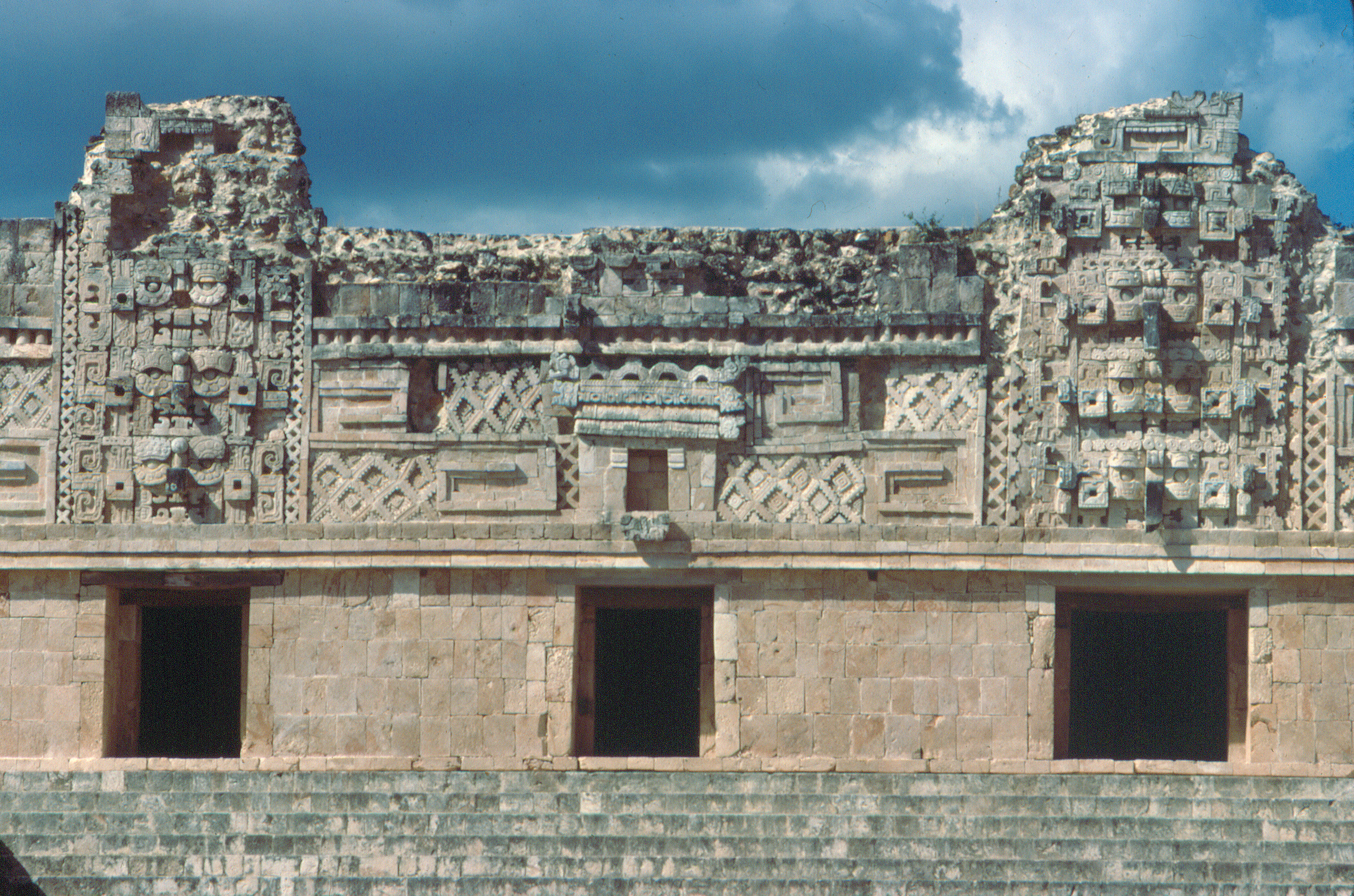 Uxmal, Yucatan, Mexico: Cuadrangle of the Nuns, north building, detail of facade